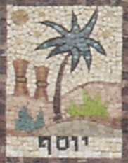 emblem of Joseph tribe - Mosaic of the 12 Tribes of Israel. From Givat Mordechai ETZ YOSEF (the tree of Joseph) synagogue facade in Jerusalem